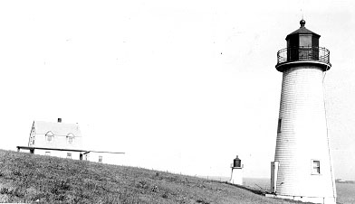 Broad Sound Channel Inner Range Lights, Boston Harbor, MA. These are incorrectly identified as the Spectacle Island Range Lights on the source page.